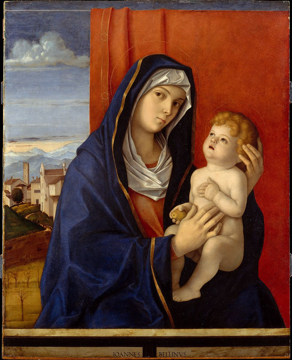 Giovanni Bellini (Italian, Venice, active by 1459–died 1516 Venice), late 1480s, Oil on wood, 35 x 28 in. (88.9 x 71.1 cm)